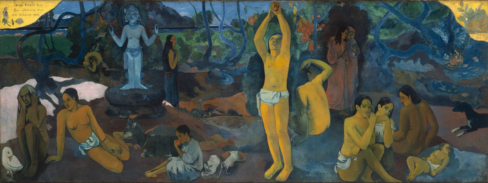 Where do we come from? Who are we? Where are we going?